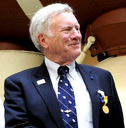 Cropped from File:US Navy 100415-N-7676W-101 Rear Adm. David Titley, Oceanographer of the Navy, congratulates retired Capt. Don Walsh, the first commander of the U.S. Navy bathyscaph Trieste.jpg